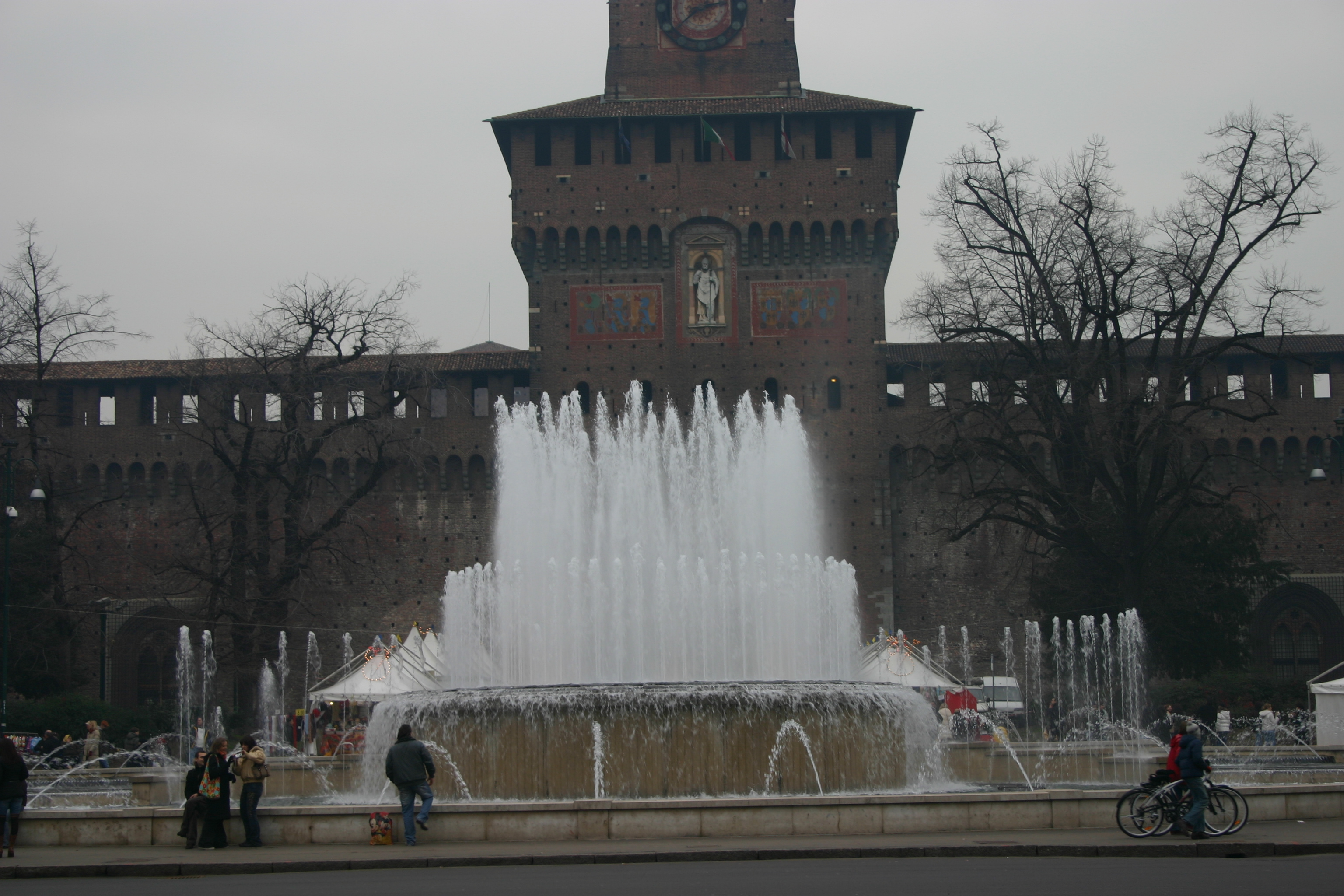 The fountain facing the Castello sforzesco ("Sforza's castle") in Milan, (Italy). Picture by Giovanni Dall'Orto, June 11 2005.